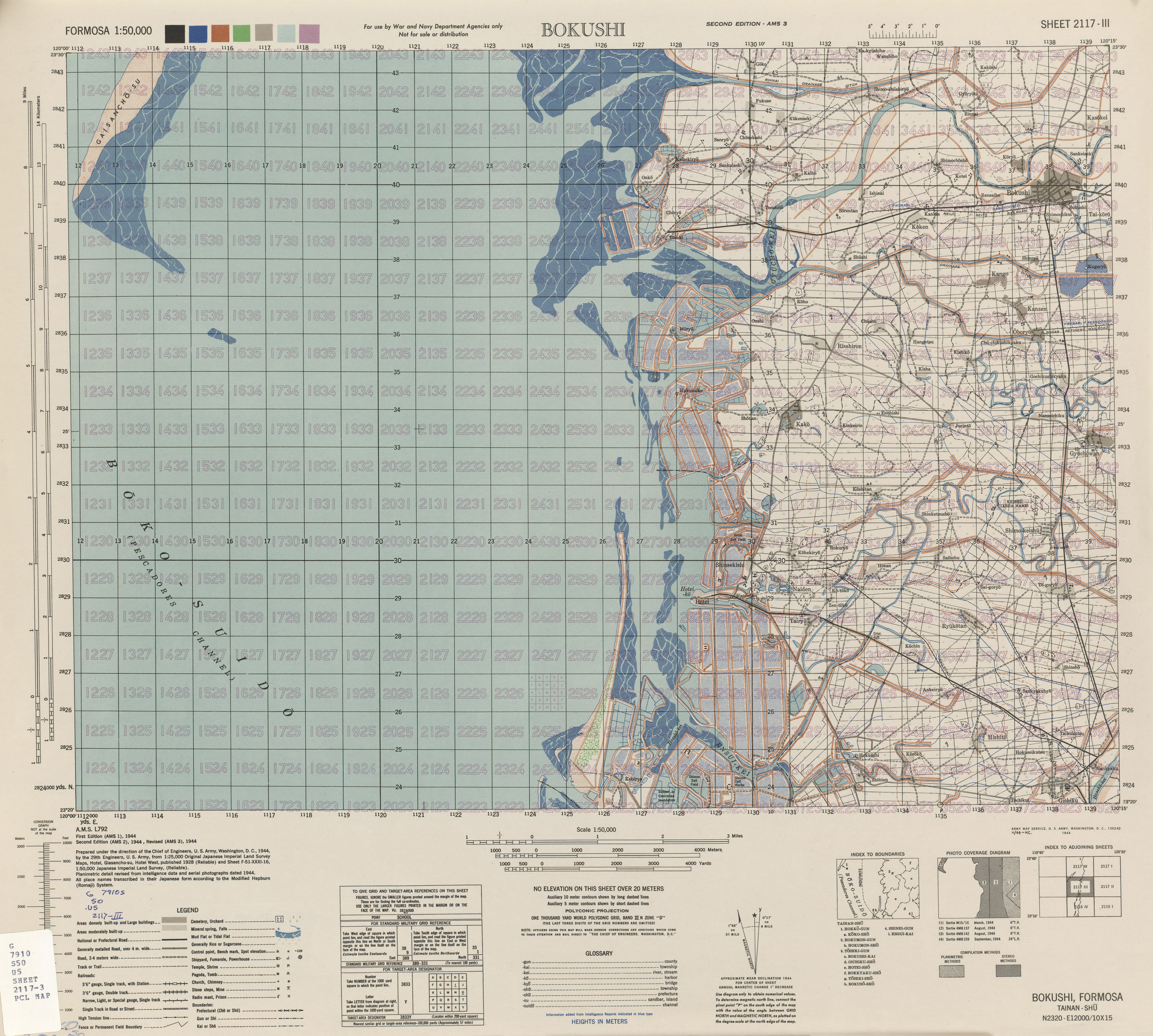 Map from Formosa (Taiwan) 1:50,000 AMS Series L792